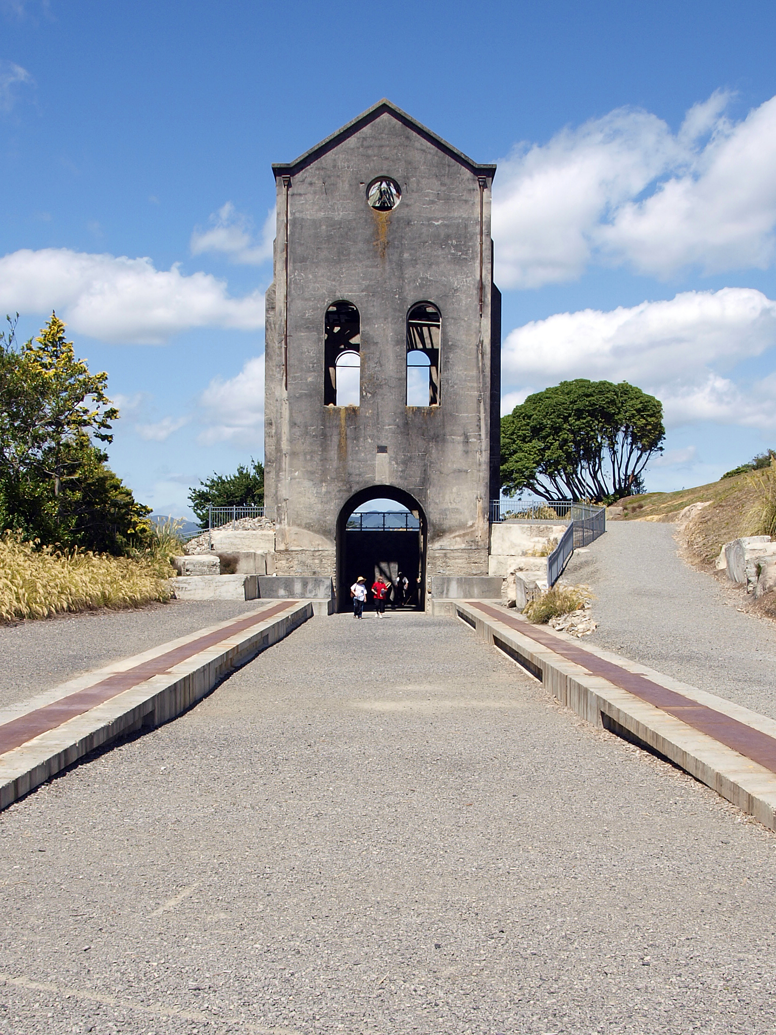 Cornish Pumphouse (1903), Waihi, Bay of Plenty, North Island, New Zealand